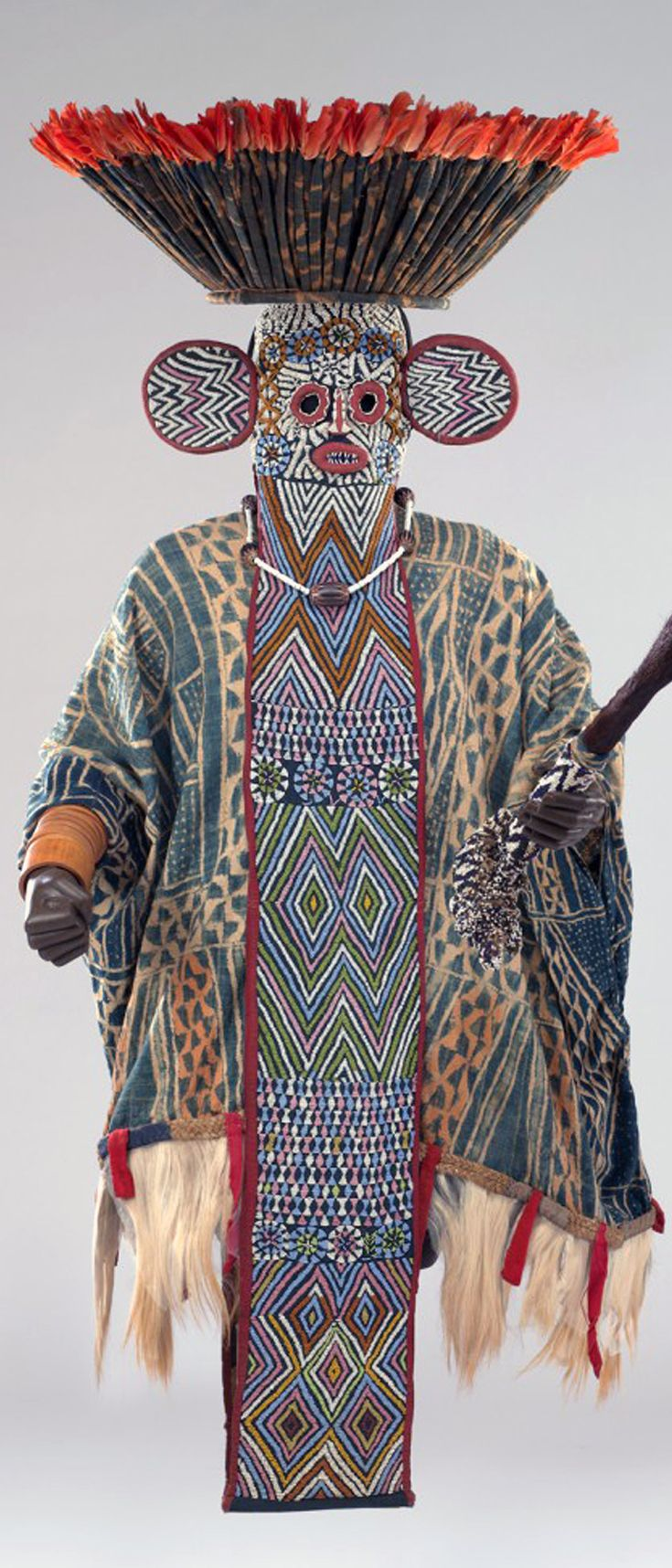 Elaborate Mask Ensemble of the Kuosi Society, Bamileke people, Cameroon